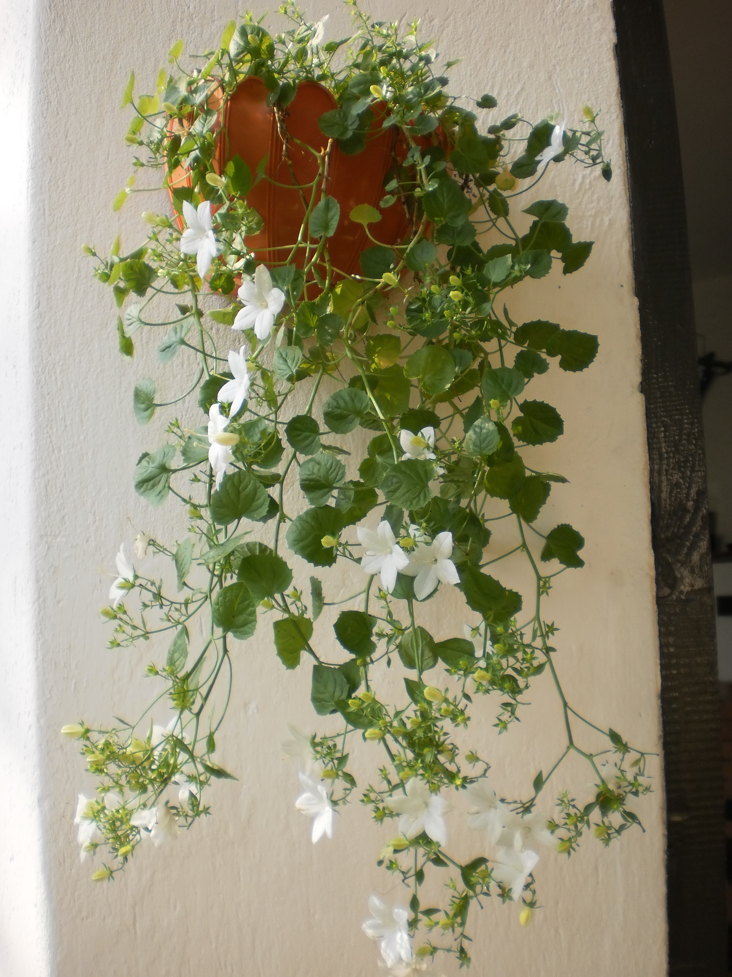 Campanula isophylla var. alba in a flower pot in Gabrovo, Bulgaria